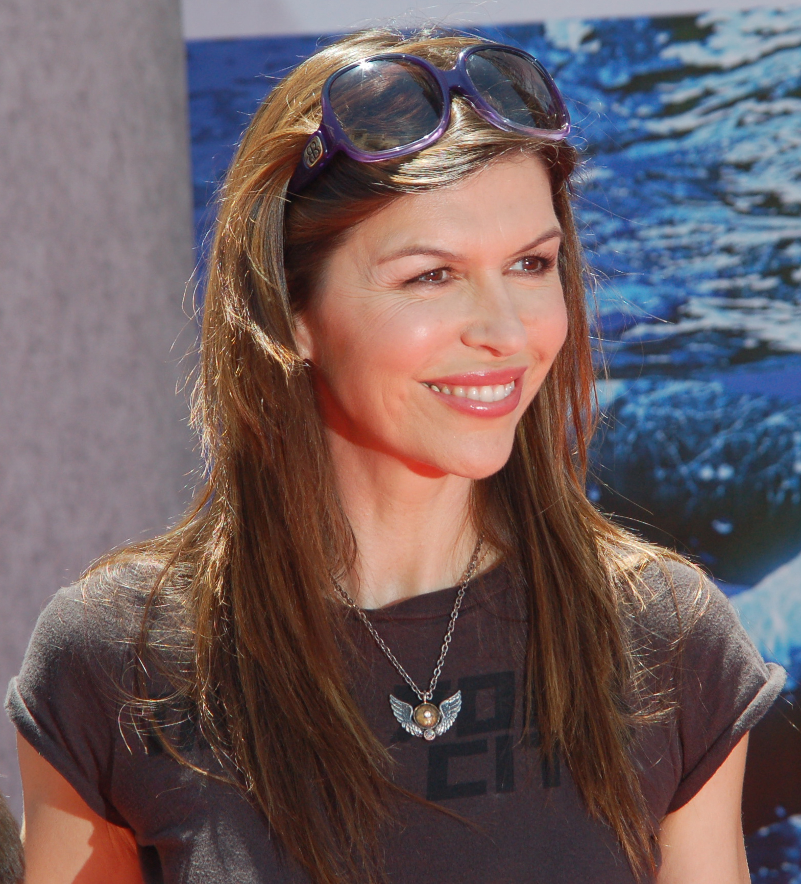 Finola Hughes at the premiere for Earth